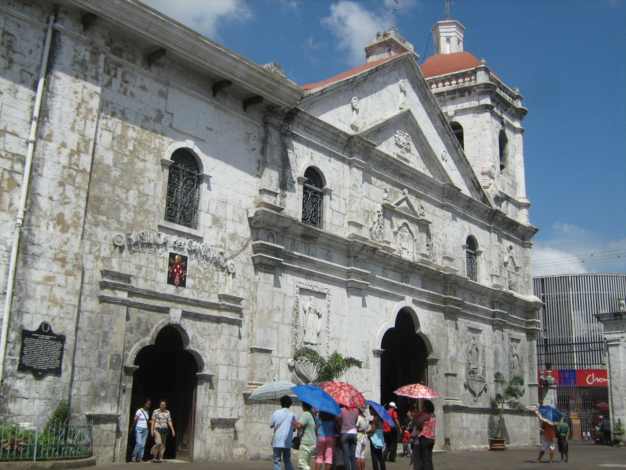 Basilica Minore del Santo Niño in Cebu City, Cebu, Philippines